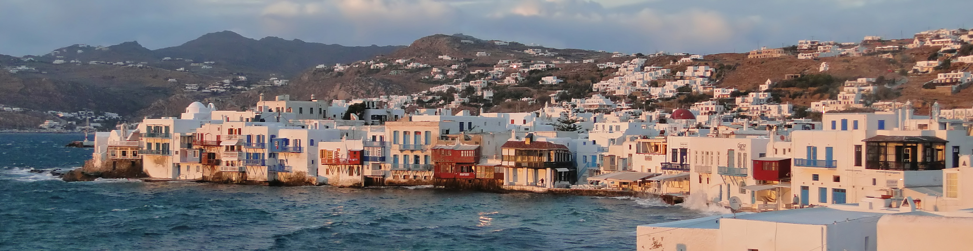 The Little Venice in Mykonos, Greece